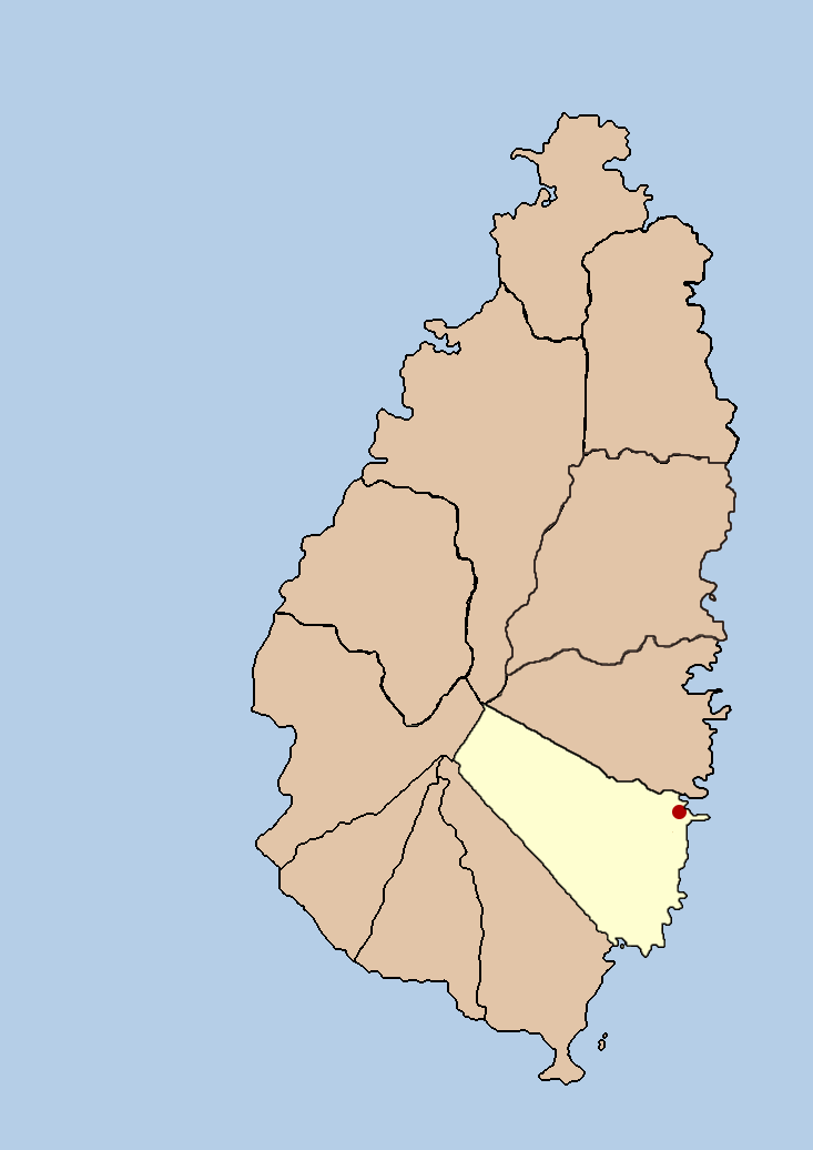 this is a political map showing the quarter of Micoud on the island nation of Santa Lucia. I created it myself by using the GIMP to trace a public domain map that i found at the Perry-Castañeda Library Map Collection.